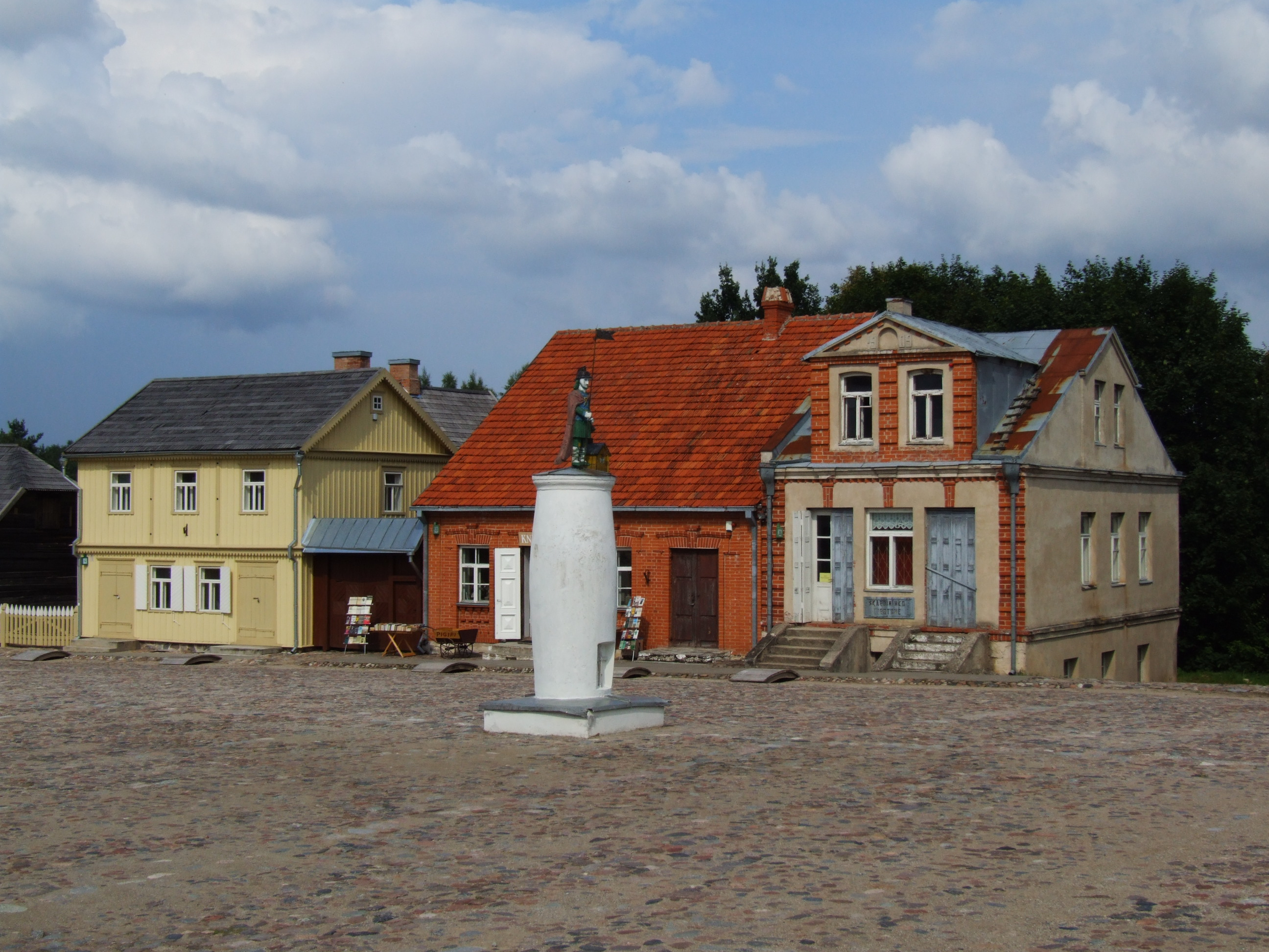 Rumšiškės (Rumszyszki) - Open air ethnographic museum